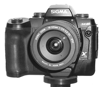 Sigma SD10 front